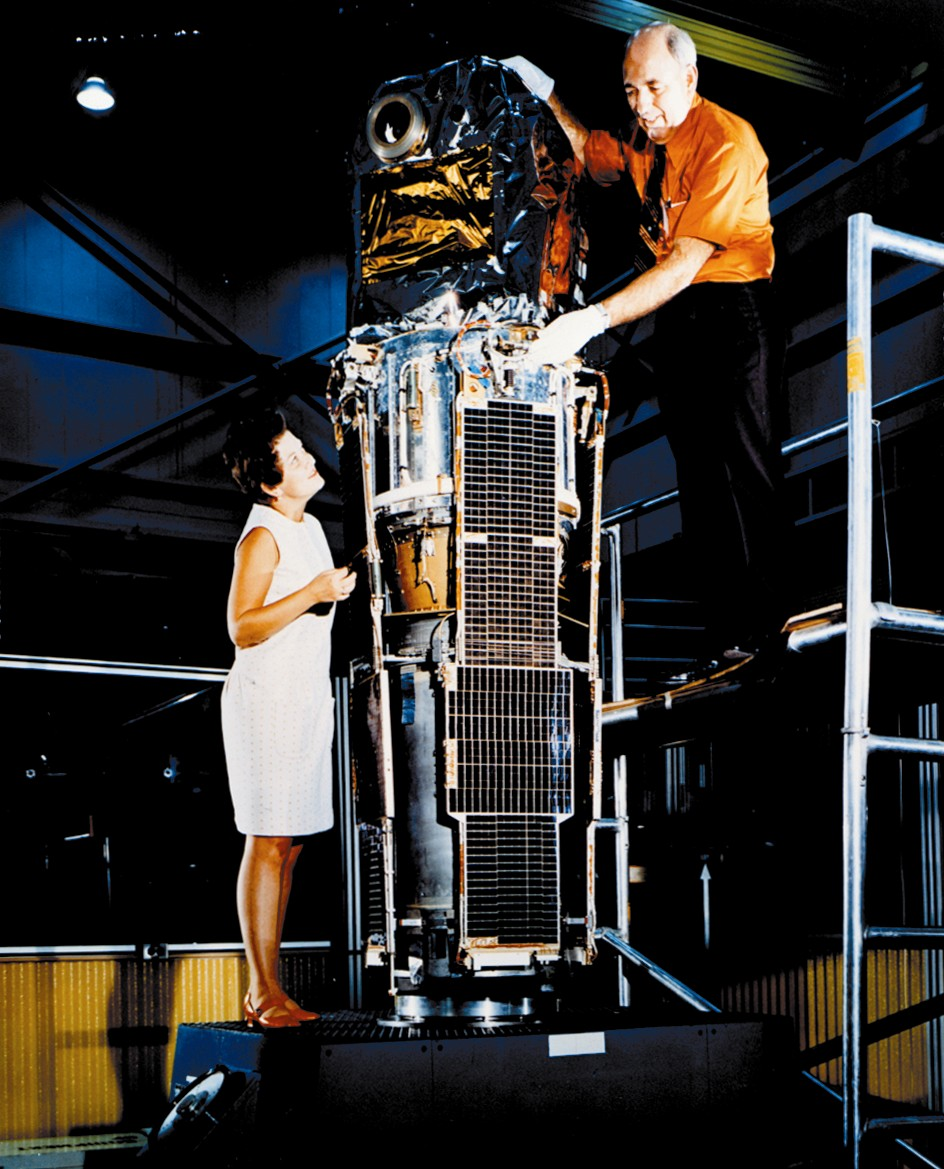 Marjorie Townsend discusses the X-ray Explorer Satellite's performance with Bruno Rossi during preflight tests at NASA's Goddard Space Flight Center. Townsend, a Washington DC native, was the first woman to receive an engineering degree from The George Washington University. She joined NASA in 1959 and later advanced to become the project manager of the Small Astronomy Satellite (SAS) Program. The satellite shown in the picture, SAS-1, was the 42nd in NASA's Explorer series, a family of small, simple satellites sent to perform important scientific missions for minimal cost. The first Explorer satellite launched in 1958, months prior to the formation of NASA, initiating a program of exploration that has continued into the twenty-first century. SAS-1 continued the tradition of crucial science projects by carrying the first set of sensitive instruments designed to map X-ray sources both within and beyond our own galaxy, the Milky Way. Also known as Explorer 42 and the X-ray Explorer, it became the first American spacecraft launched by another country when an Italian space team launched it on December 12, 1970 from a mobile launch platform located in international waters off the coast of East Africa. It mapped the universe in X-ray wavelengths and discovered X-ray pulsars and evidence of black holes. The satellite was named Uhuru, which means freedom in Swahili, because it was launched from San Marco off the coast of Kenya on Kenya's Independence Day. In the 1970's the Italian Government made Townsend a Knight of the Italian Republic Order for her contributions to the United States-Italian space efforts. In 1990, Townsend joined BDM International Inc., as the director of Space Systems Engineering with the Space Science and Applications Division.